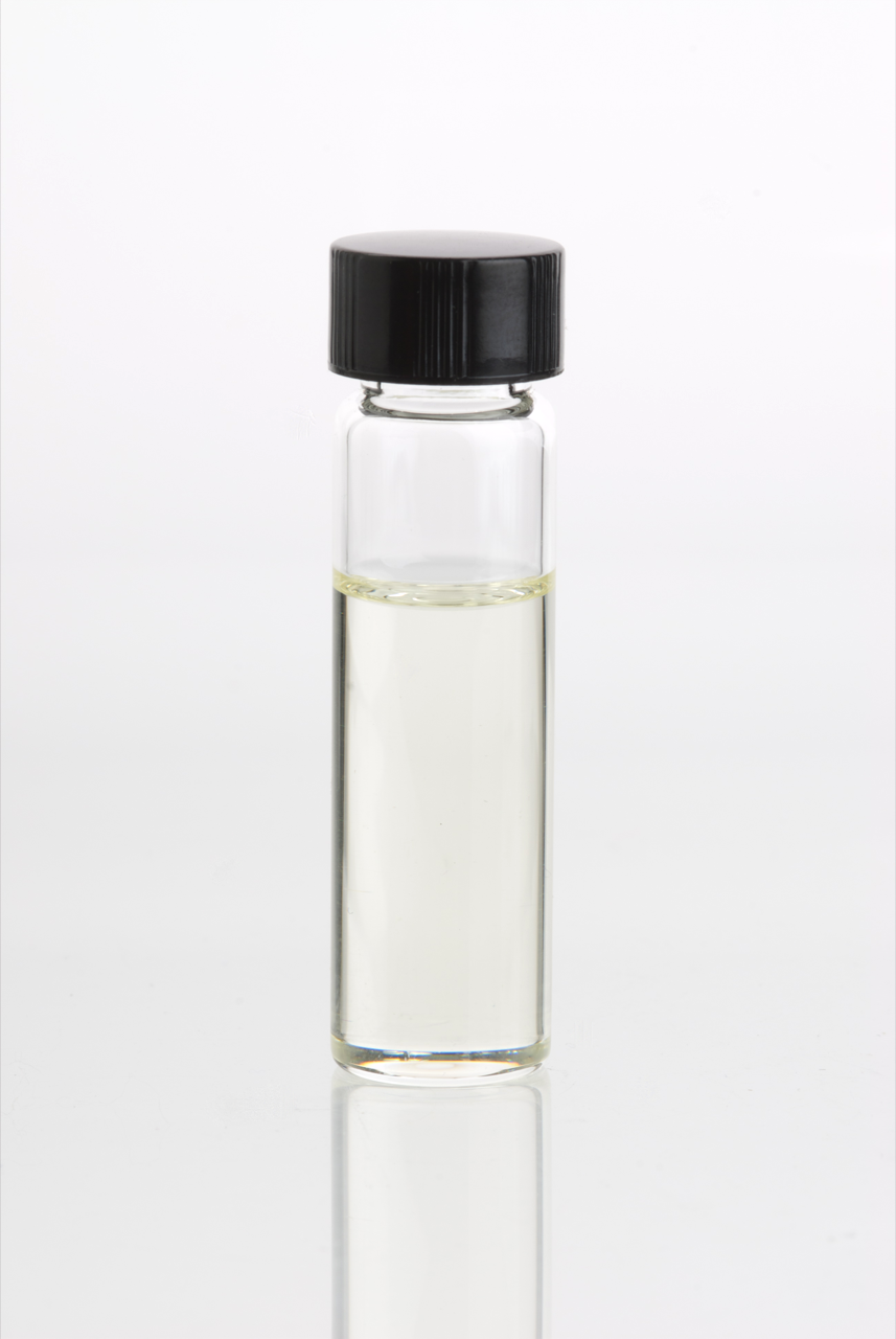 Glass vial containing Galbanum Essential Oil